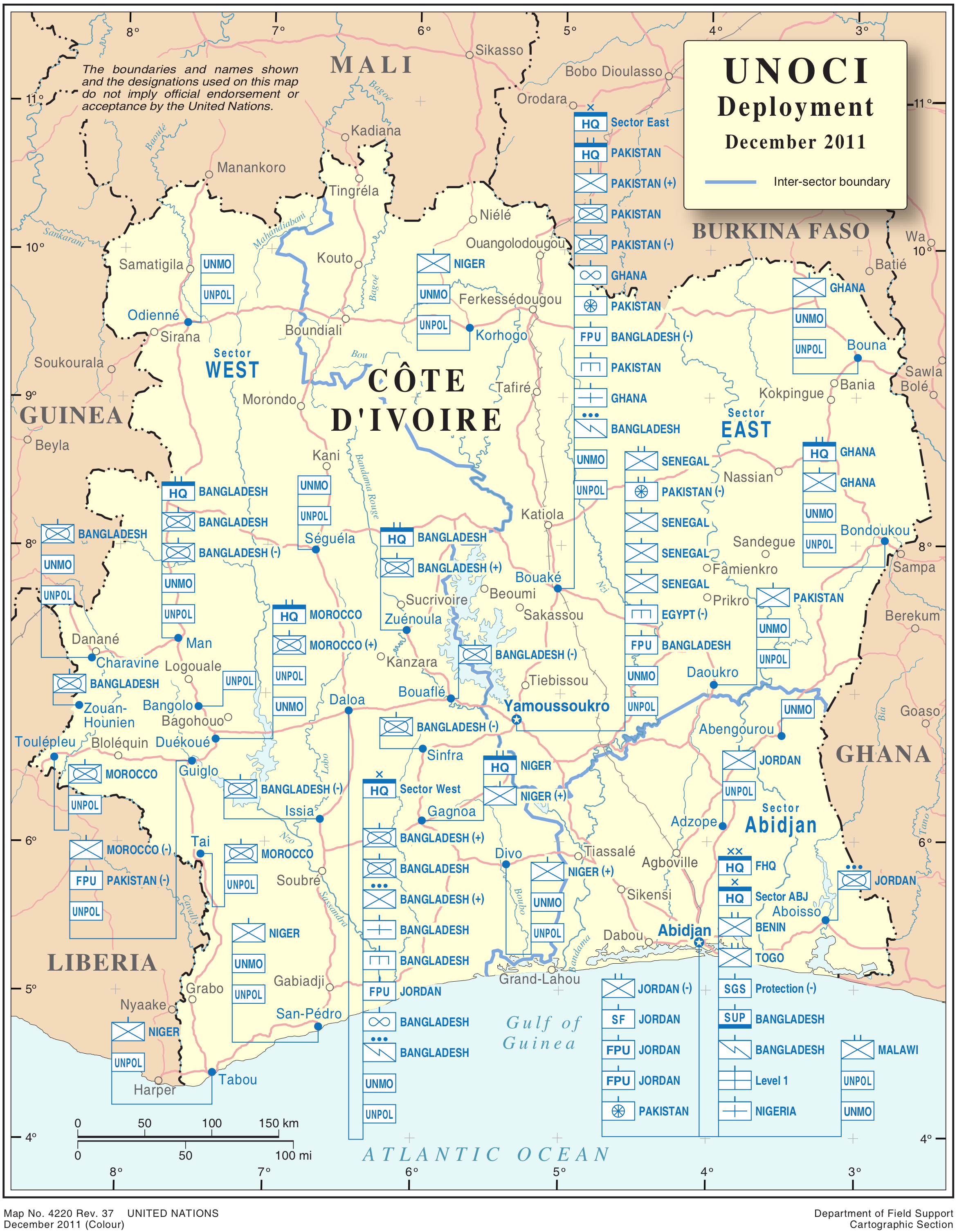 United Nations Operation in Côte d'Ivoire (UNOCI) deployment map as of December 2011.